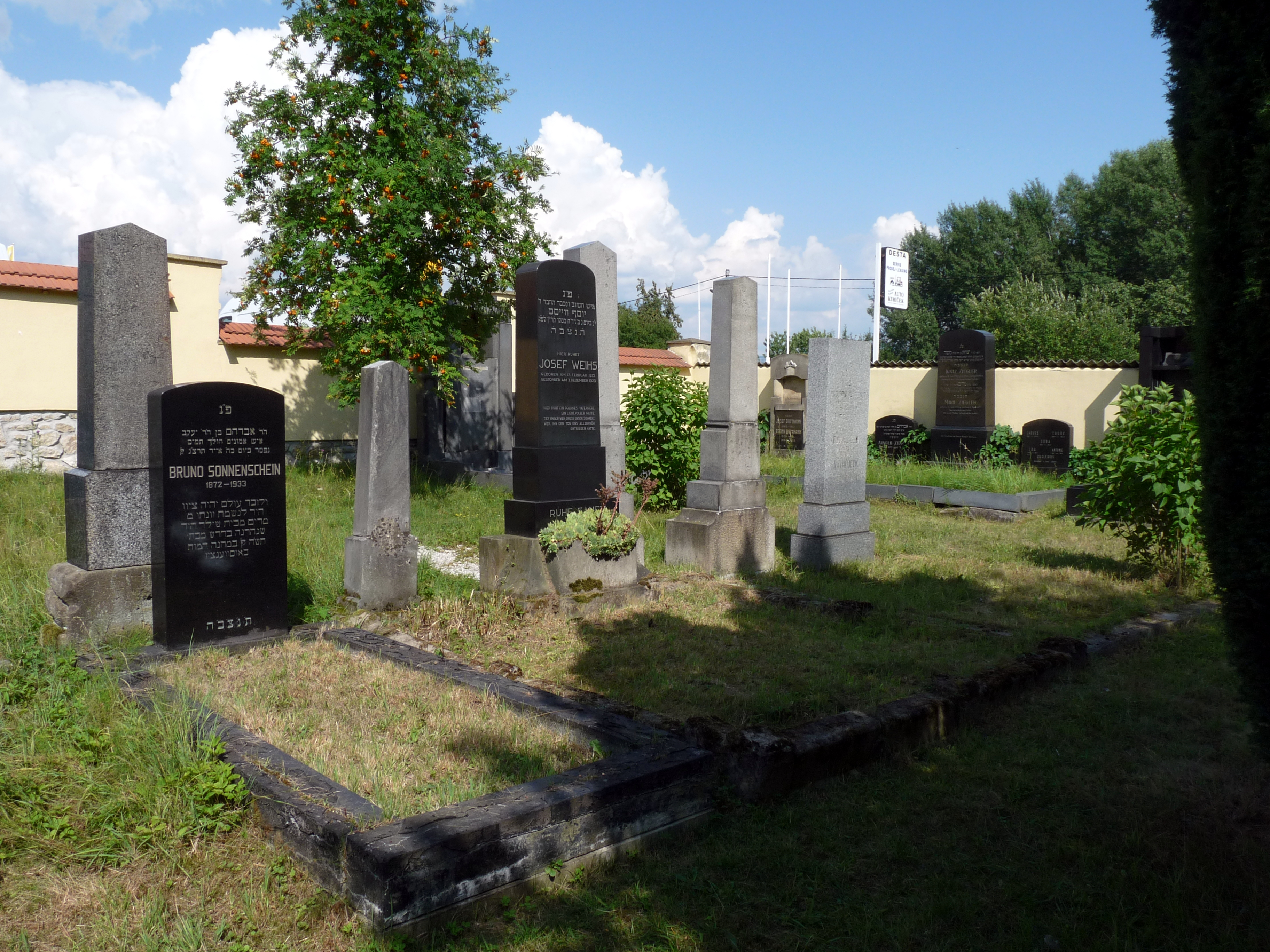 Gravestones in the Jewish cemetery in the town of Šumperk, Olomouc Region, Czech Republic.